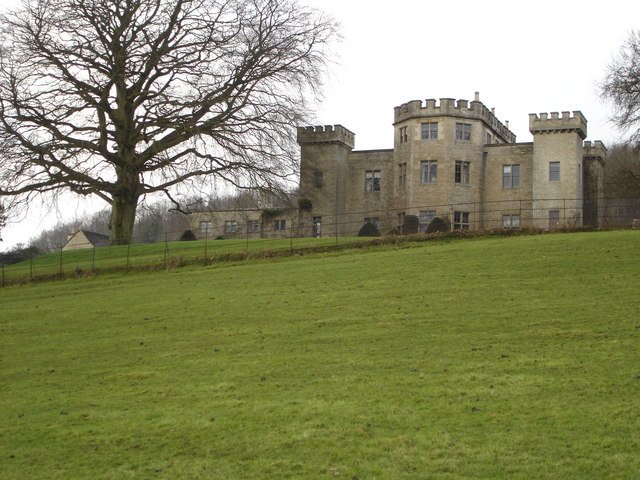 Lasborough Park This large country house near the very small village of Lasborough was built in 1797 for Edmund Estcourt to a design by James Wyatt.